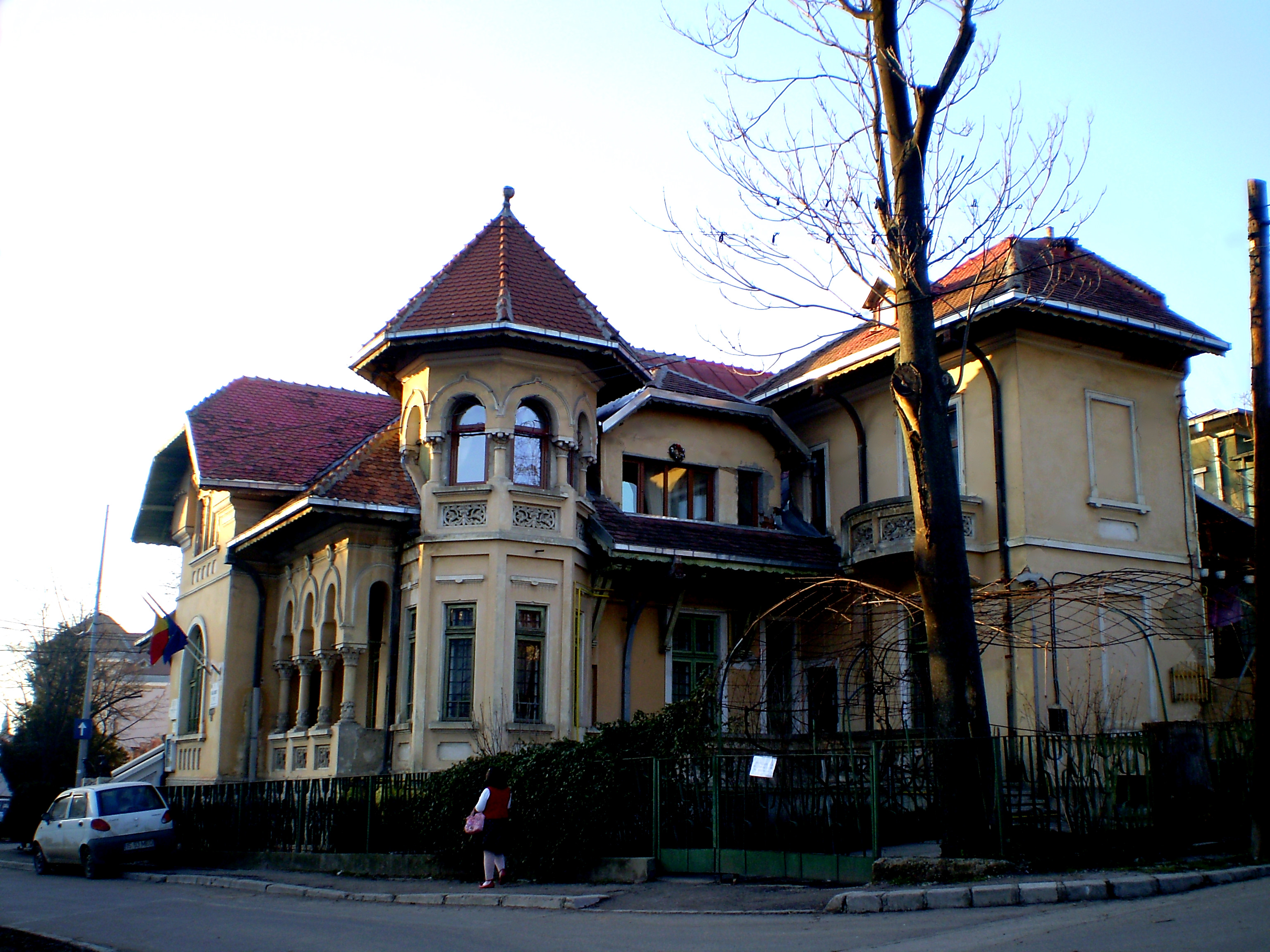 Iaşi , Memorial House „Mihai Codreanu“ (Sonnet Villa) , Iaşi , Romania